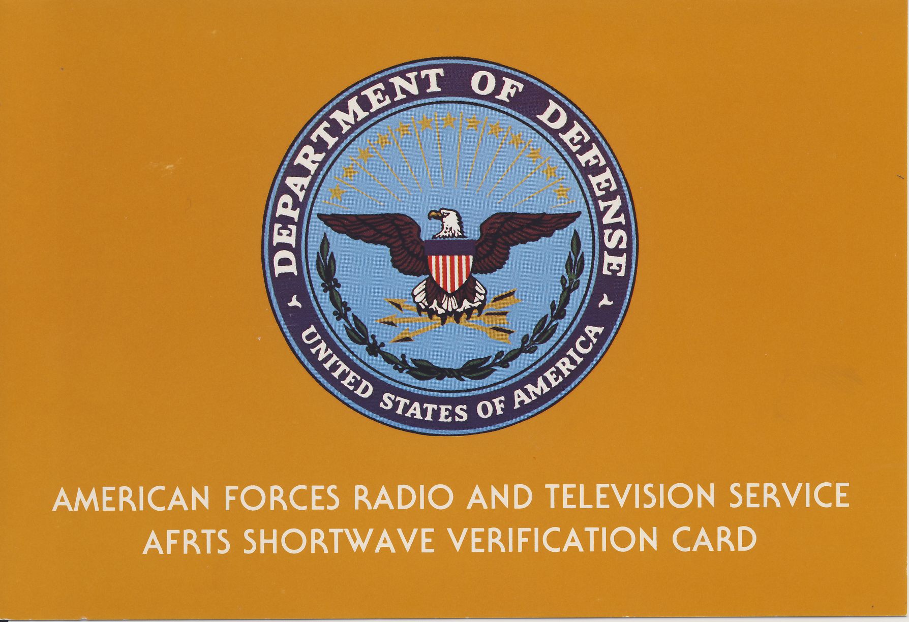 American Forces Radio and Television Service AFRTS, via Greenville, North Carolina